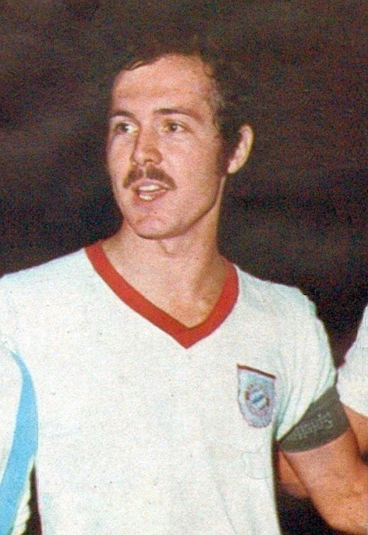 Franz Beckenbauer before the friendly match, Argentina national team (4) vs Bayern Munich (3) in Buenos Aires